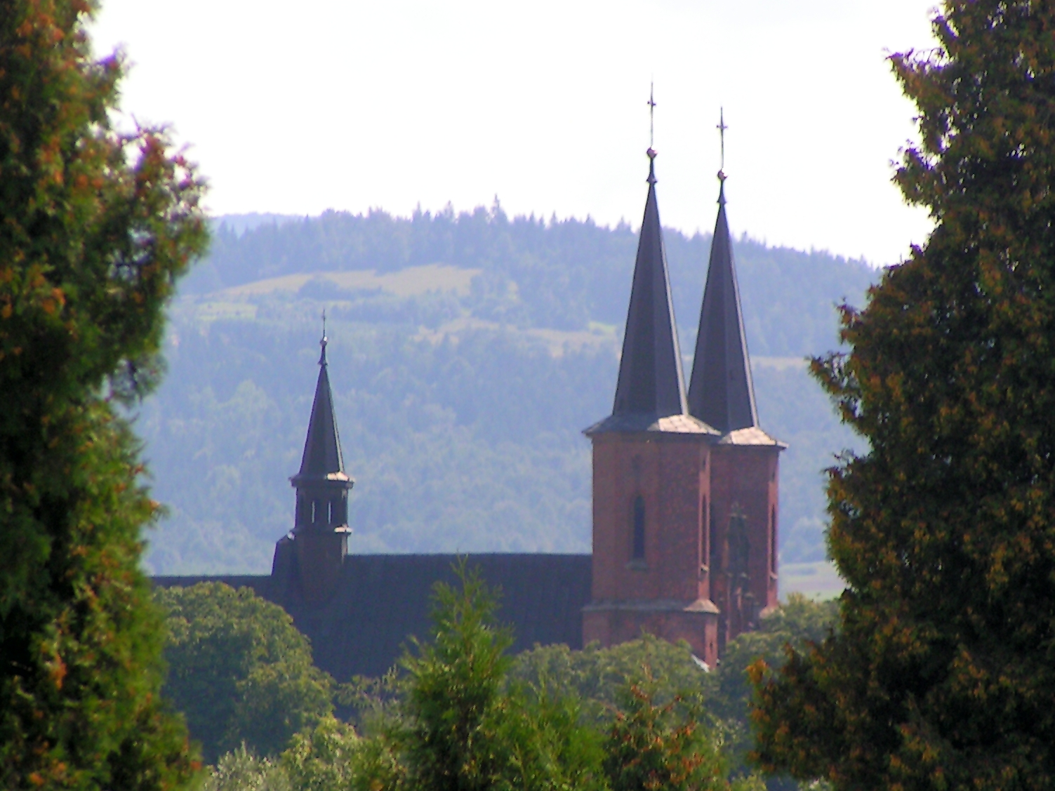 Saint Martin parish church in Łużna